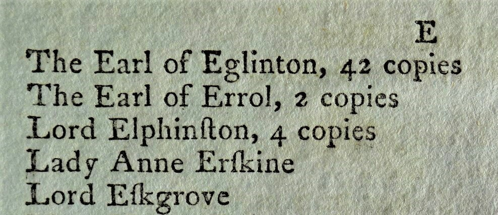 Earl of Eglinton on the Edinburgh Edition 1787 subscribers list for 42 copies of Robert Burns' poems.